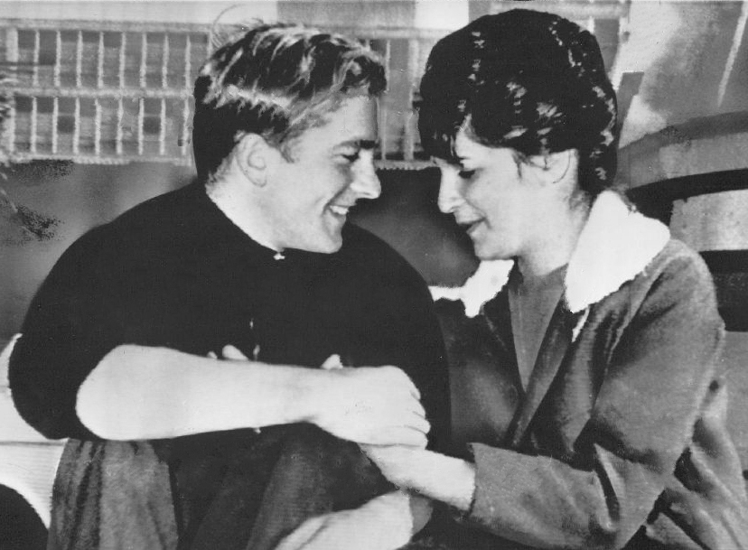 1963 Wire Photo American Olympic Cyclist Michael Hiltner To Wed In Brazil